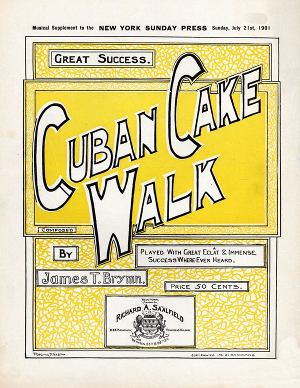 "Cuban Cake Walk" by James T. Brymn. New York, NY: Richard A. Saalfield, 1901 sheet music cover.